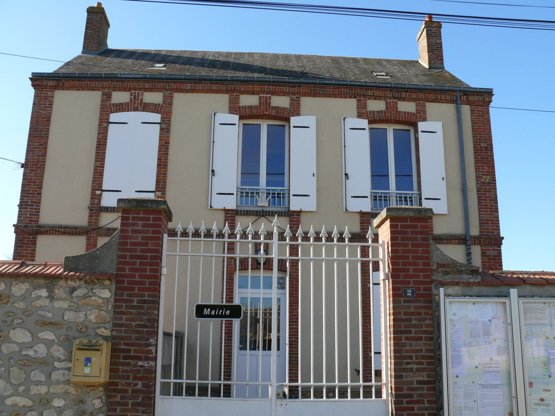 The city hall of Santeuil (Eure-et-Loir, Centre, France).